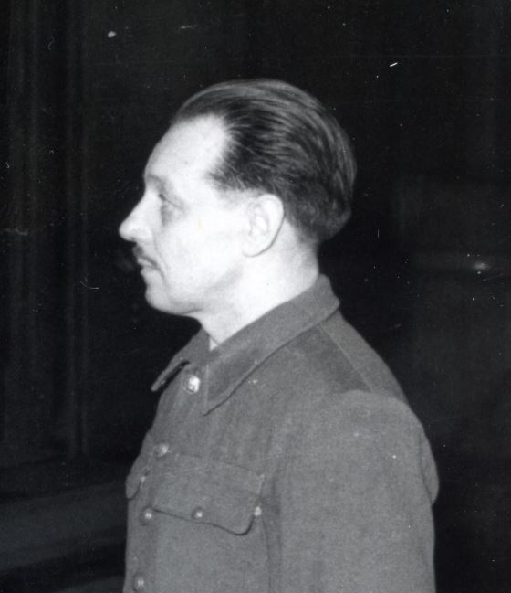 Mikulich Tibor